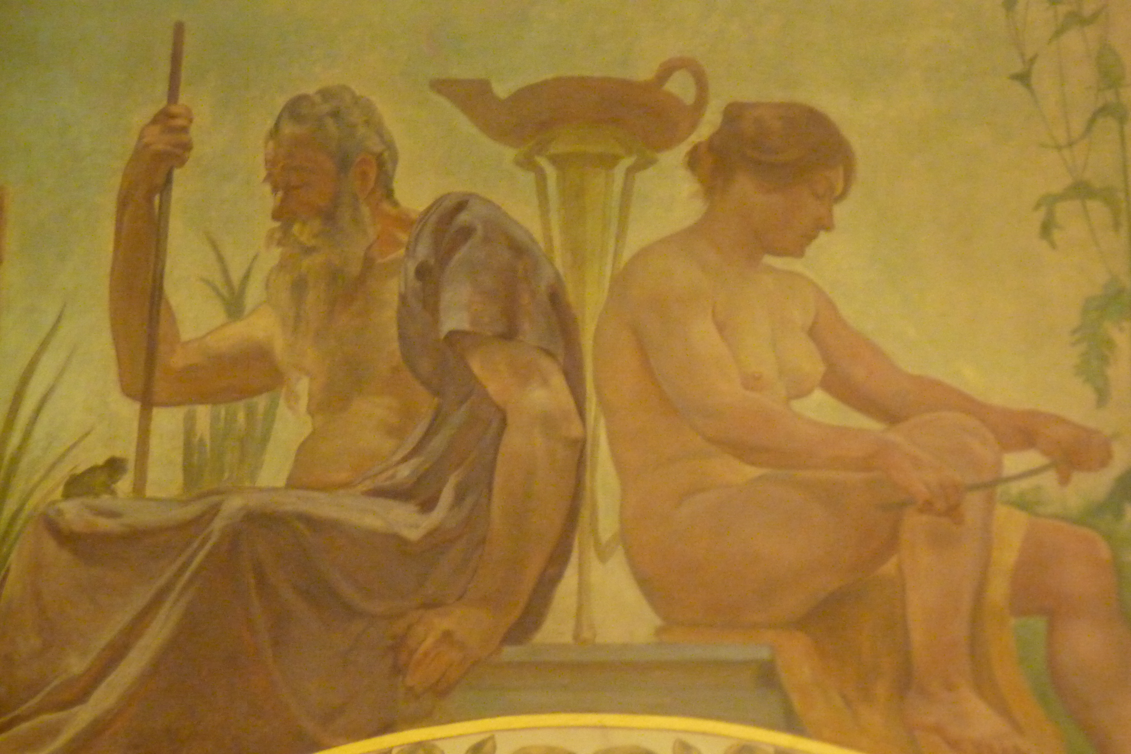 Experience and Tolerance. Detail from Omer Dierickx' allegorical ceiling painting in the Room of Europe